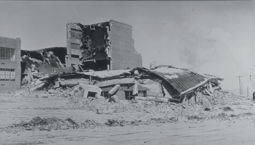 View of west wing of the Helena High School buildings that finally collapsed after the October 31 aftershock, having been seriously damaged by October 18 mainshock